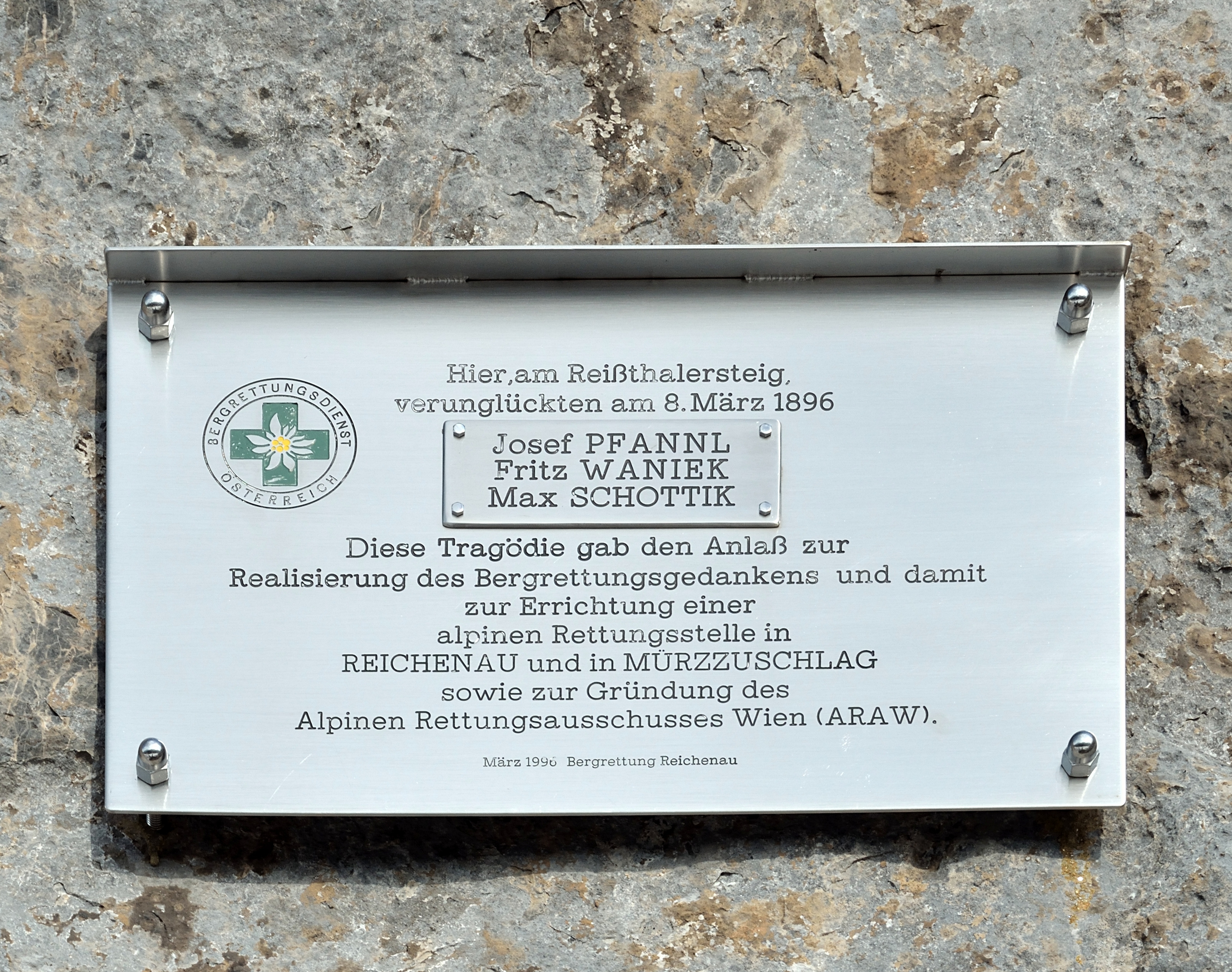 The Reißthalersteig is a via ferrata at the south side of Rax, Styria. Plaque for Josef Pfannl, Fritz Waniek, Max Schottik, who died here the 8th of March, 1896.